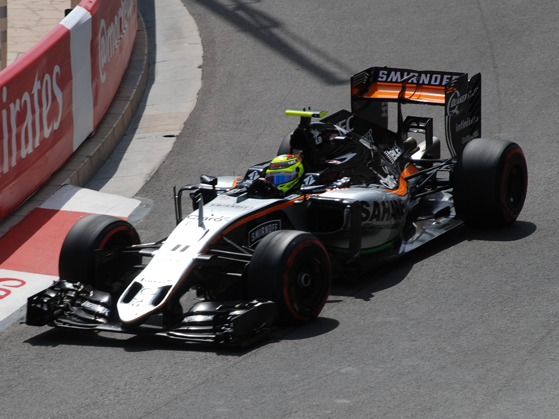 Sergio Pérez at the 2016 Monaco Grand Prix